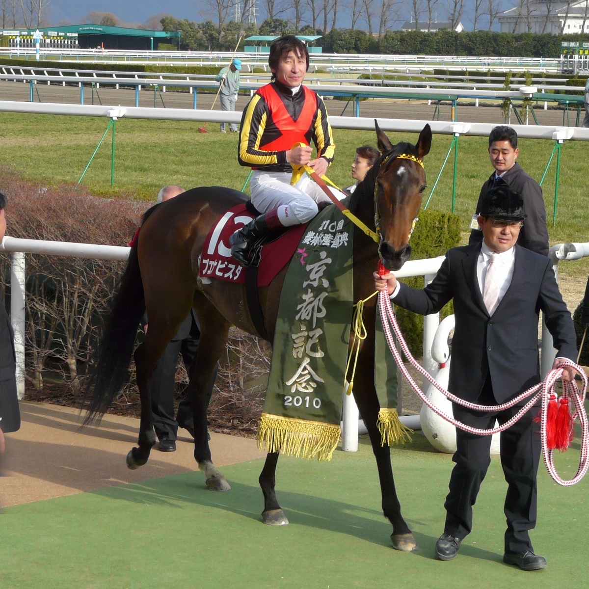 Buena-Vista-horse20100220